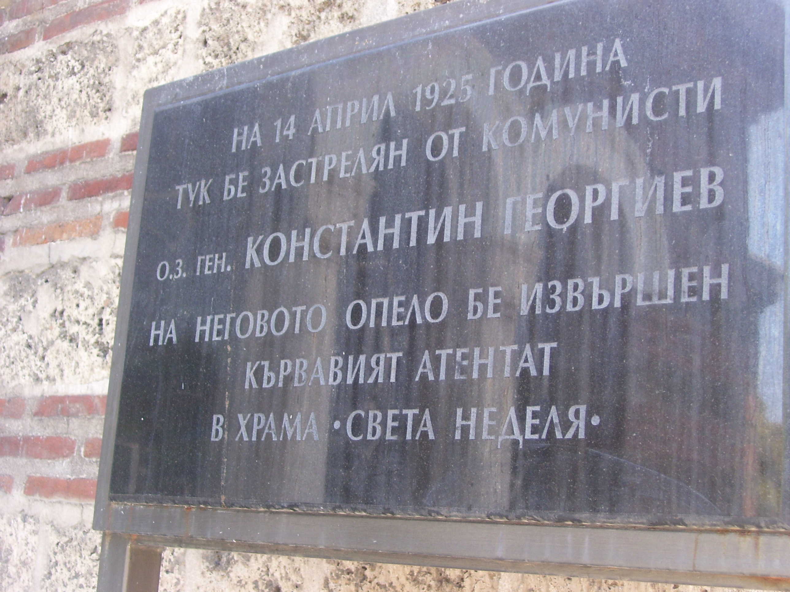 Memorial plaque in Sofia, Bulgaria, at the place where general Konstantin Georgiev was killed by communists in 1925.